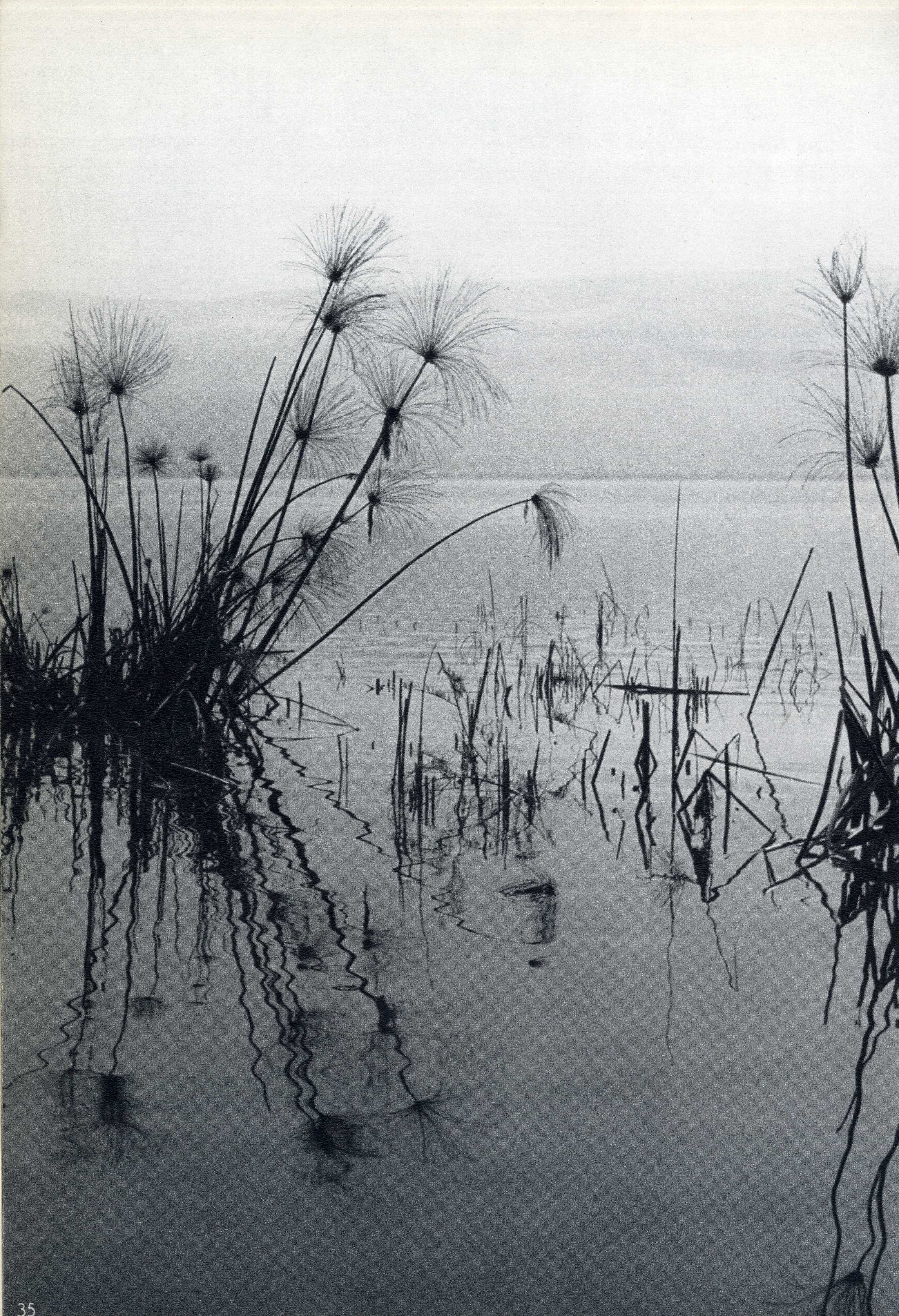 from "Song of a Dying Lake" by Peter Mirom, 1960.